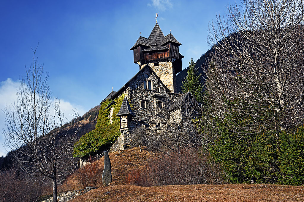 Niederfalkenstein in winter, as seen from the nearby parc.